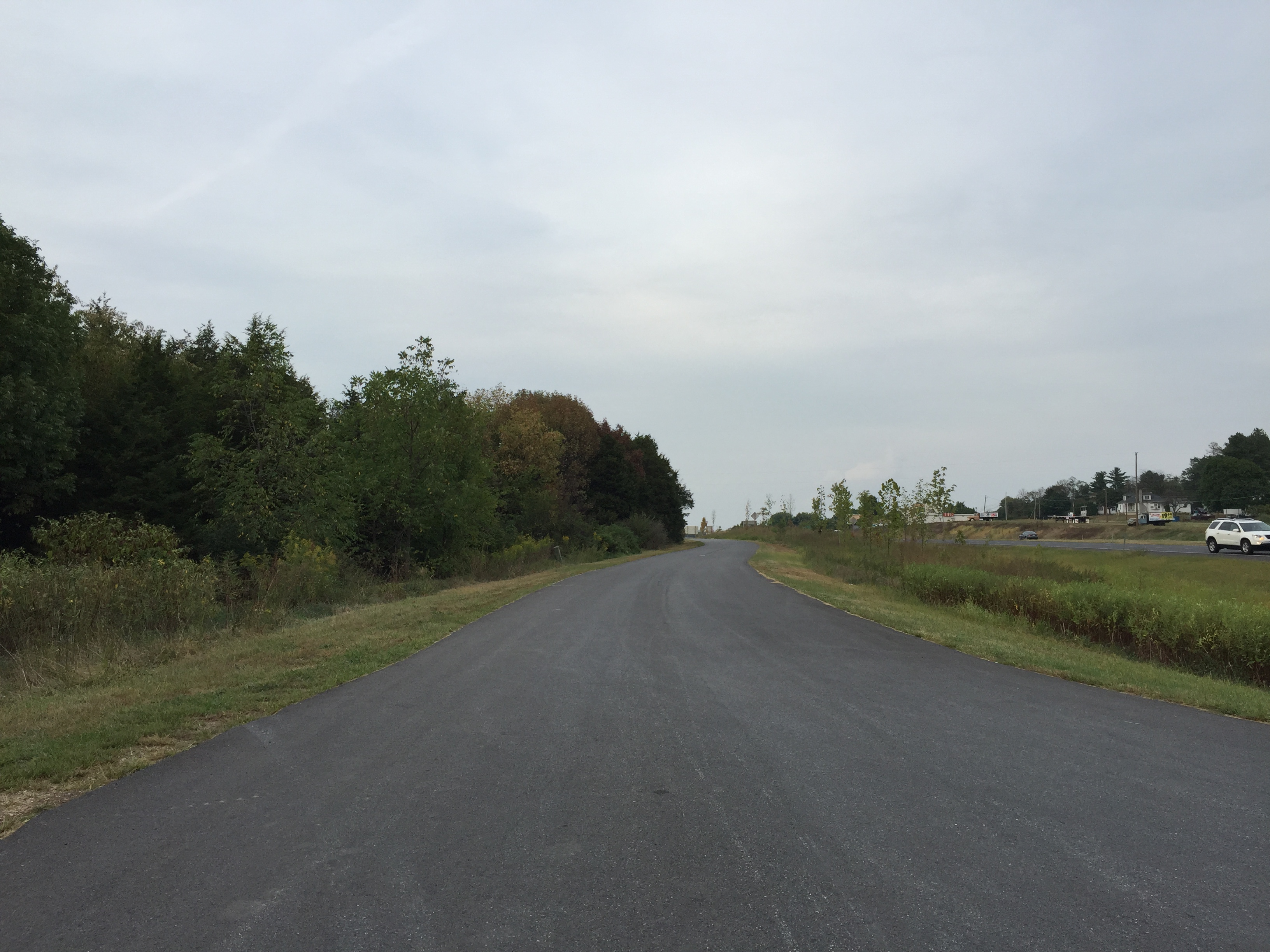 View north along Maryland State Route 873 (North Seton Avenue) at U.S. Route 15 Business (Seton Avenue) in northern Frederick County, Maryland